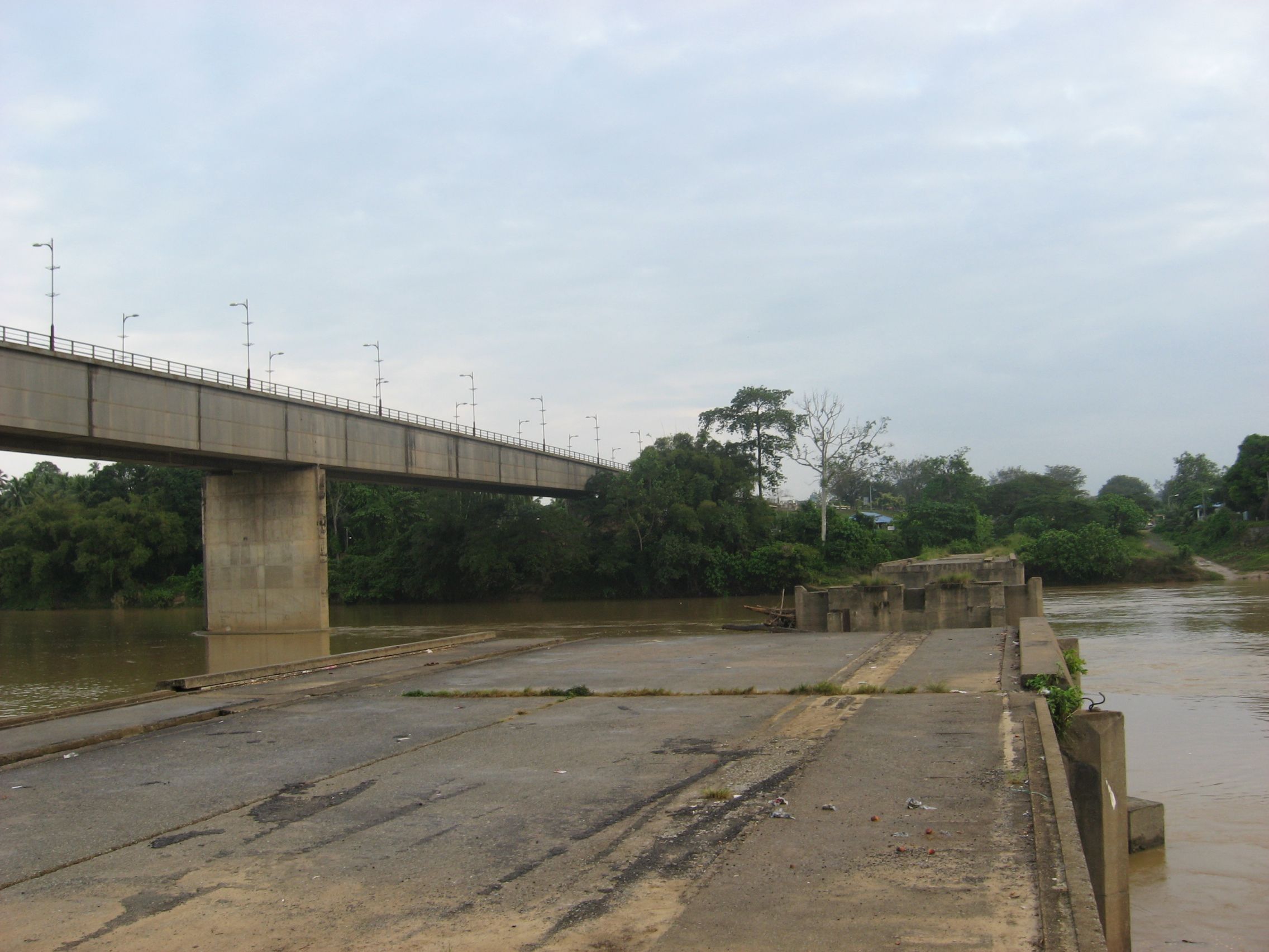 Tabdulla 14:27, 29 January 2007 (UTC)